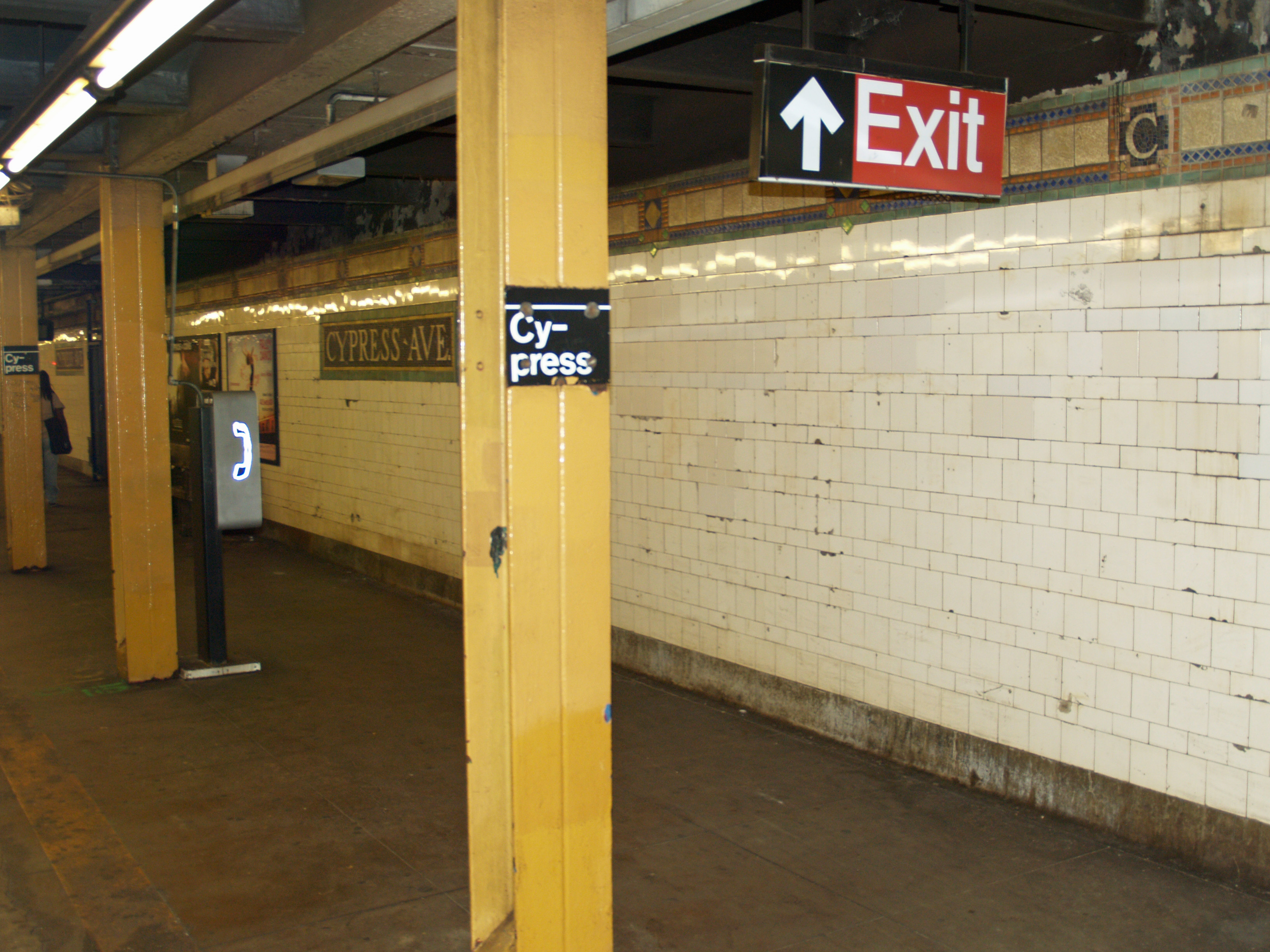 Cypress Avenue (IRT Pelham Line) by David Shankbone